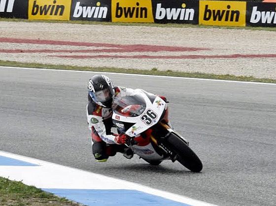 Joan Perello 2011 Estoril